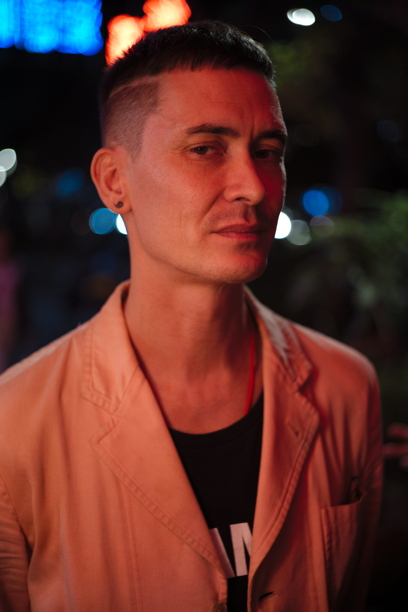 Cyril Duval, who works under the name Item Idem, is a French conceptual artist and film-maker. This photograph was taken outside of 客棧啤酒屋 in Taipei, Taiwan.